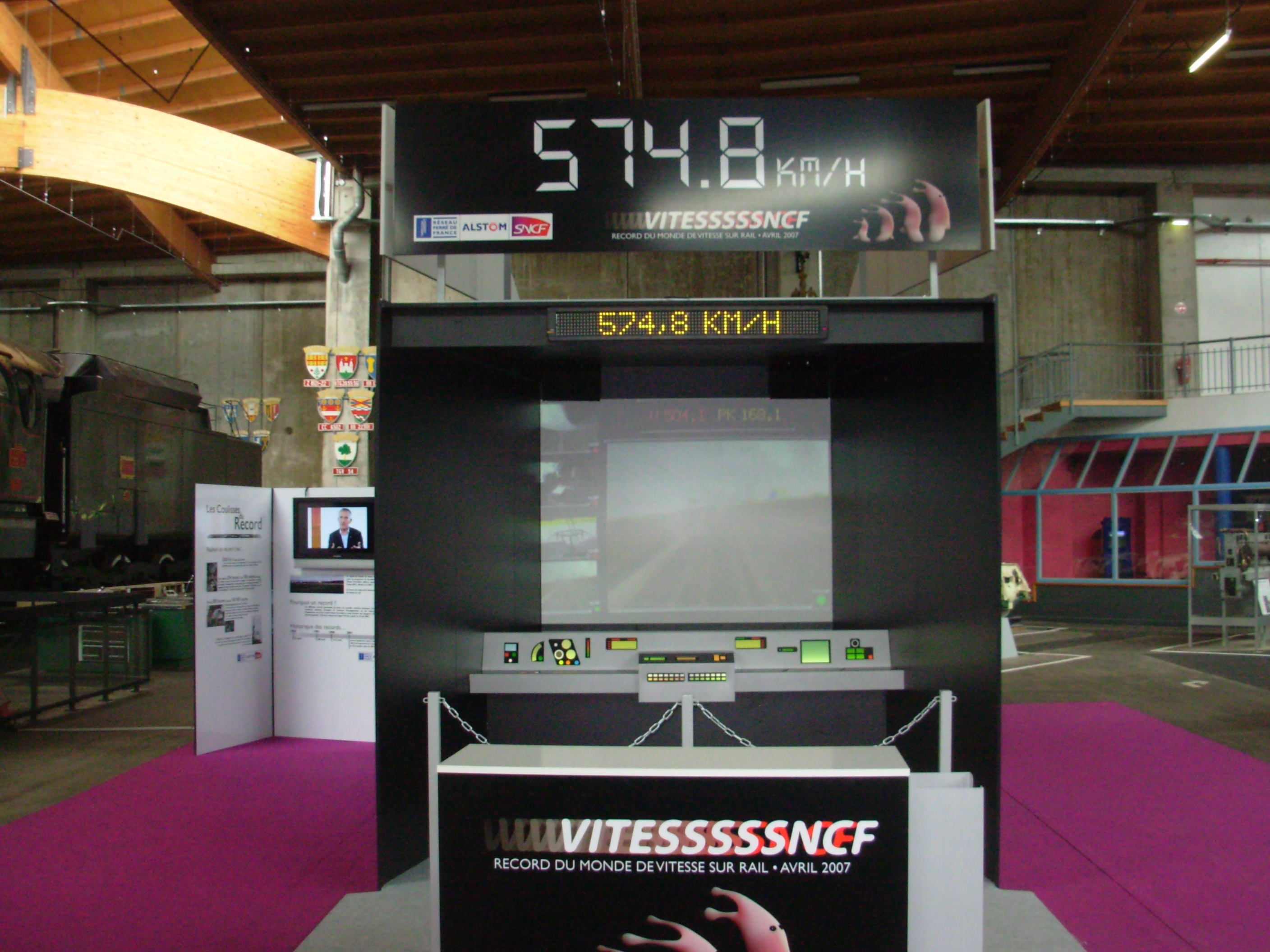 Public simulator of speed record from TGV at 574.8 km/h. Cité du train, Mulhouse, France.